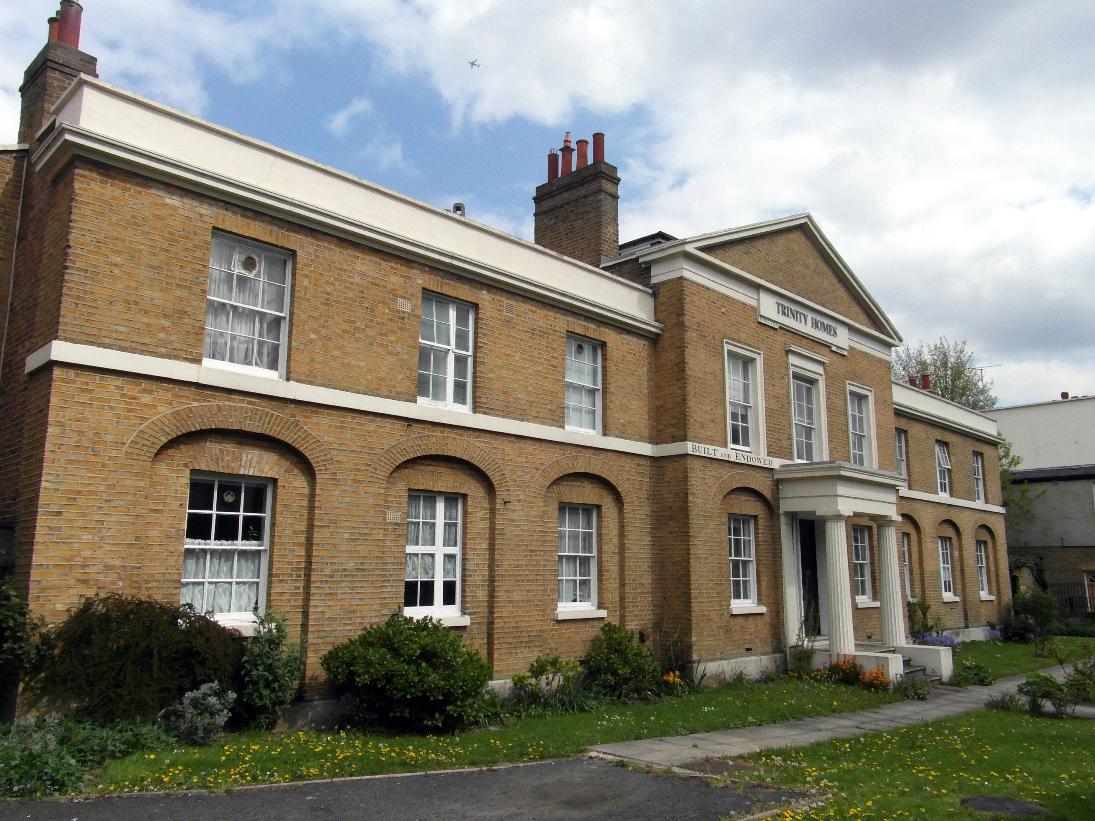 Almshouses on Acre Lane, Brixton, Lambeth. Designed by James Bailey and Willshire and completed in 1822-26.